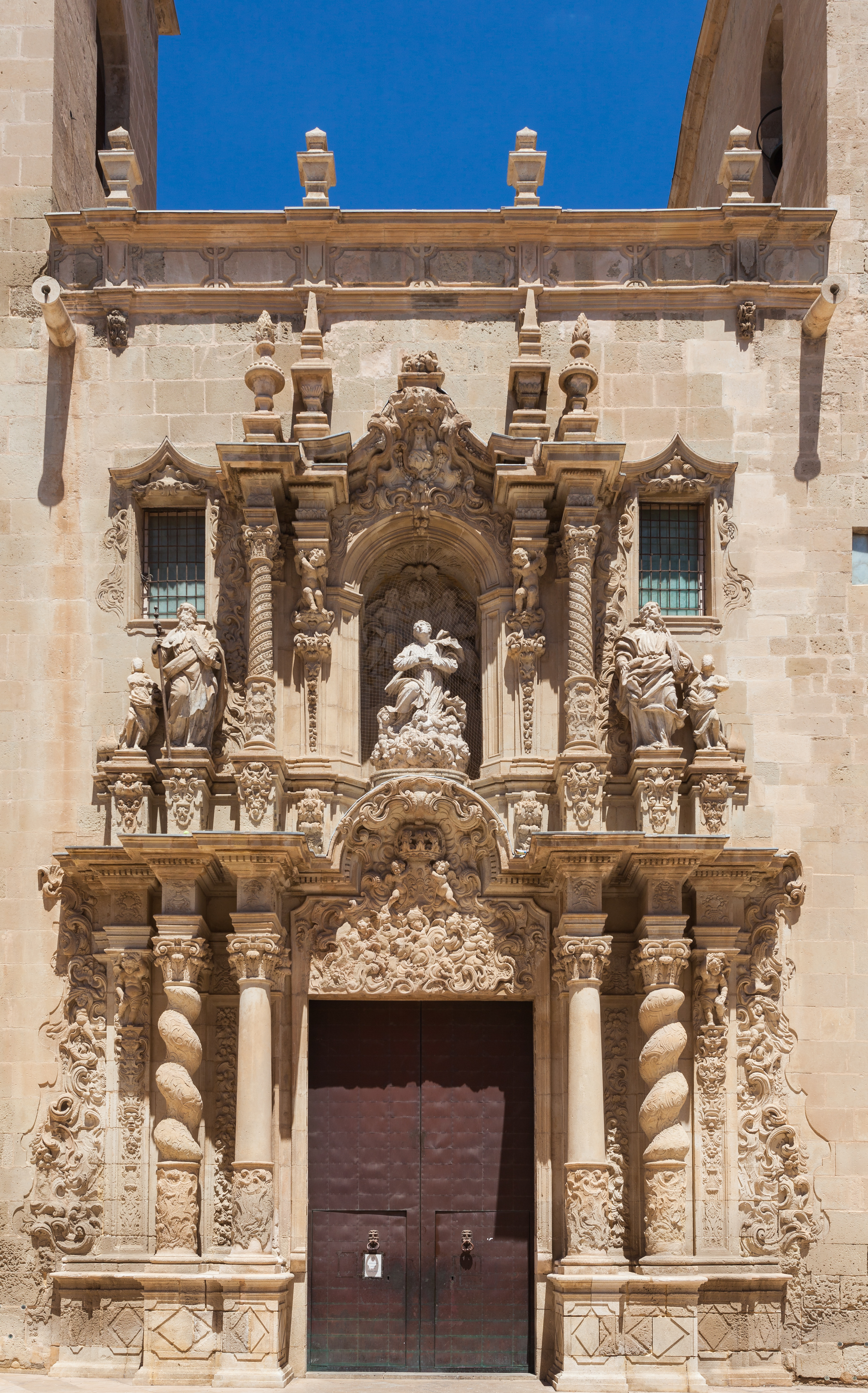 Basilica of St Mary, Alicante, Spain